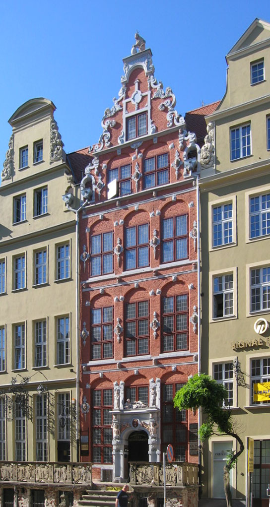 Gdansk, Gdansk, Poland, so-called 'The Schluter House', 1, Piwna Street.